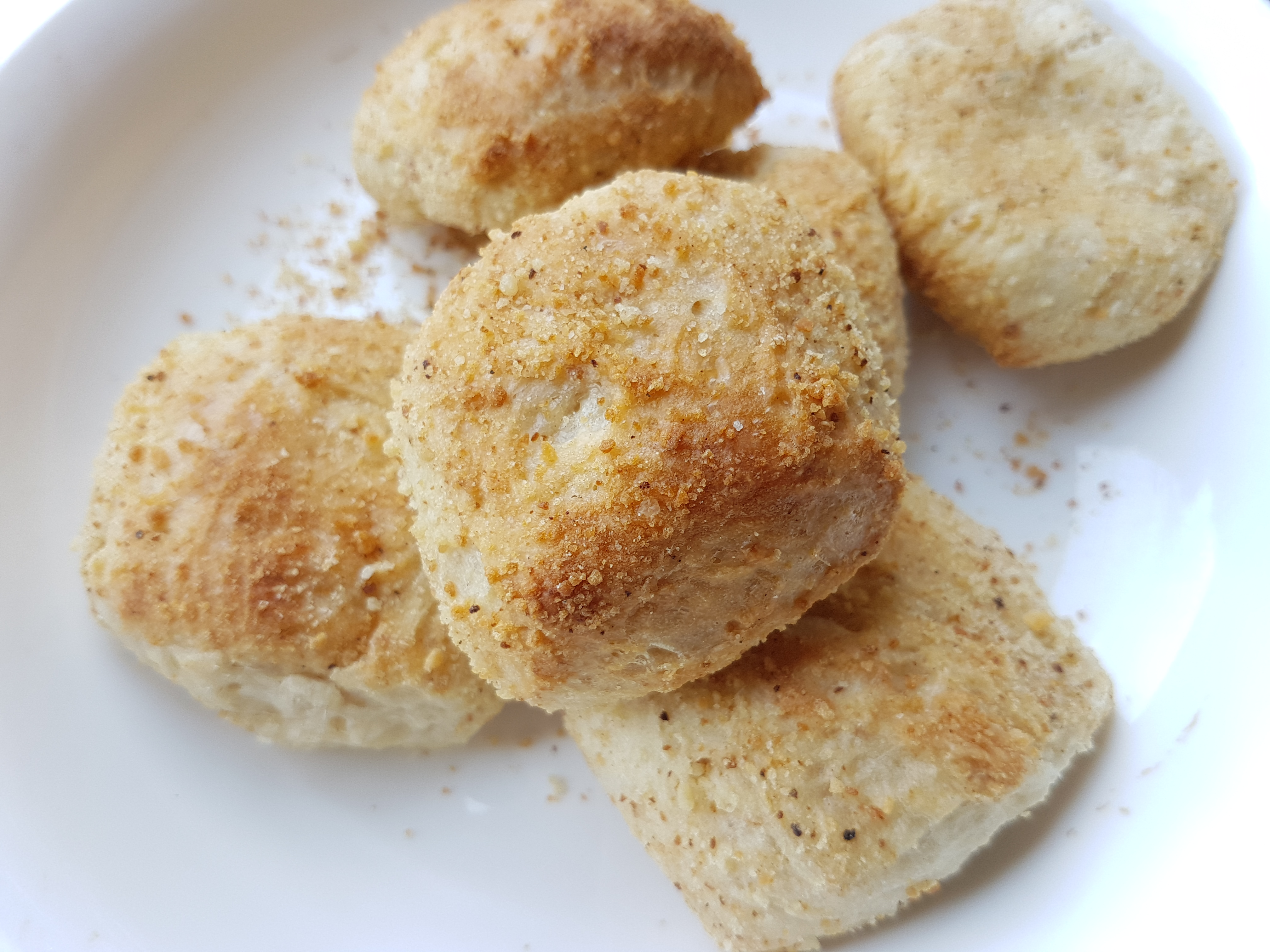 Pan de Sal from the Philippines